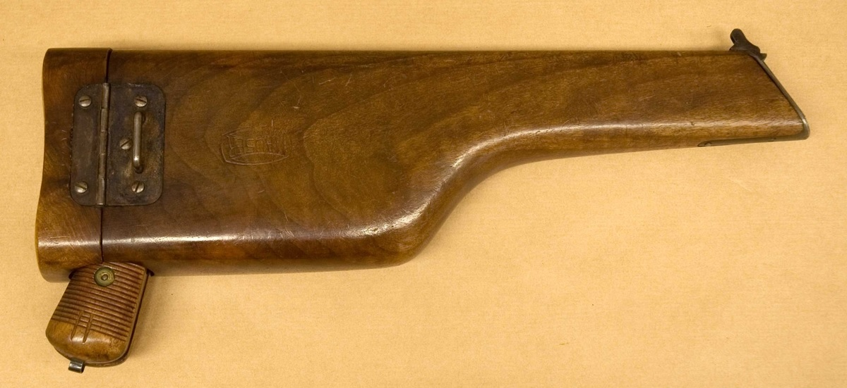 The Mauser C/96 pistol from the Swedish Army Museum collections. The pistol is shown here placed in it's case, which also functioned as a buttstock. Donated to the museum by arms collector Gösta Benckert.